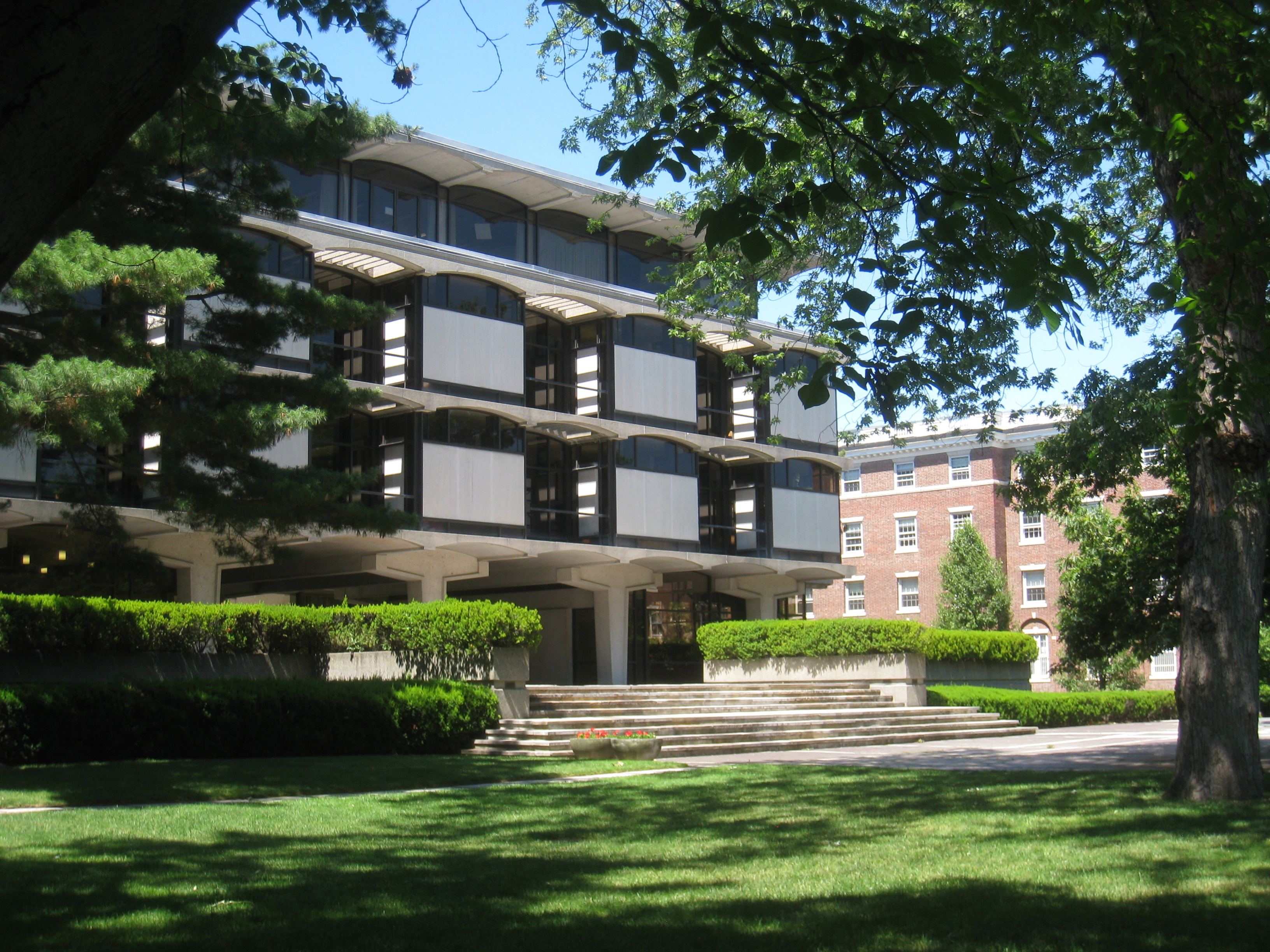 Hilles Library, Radcliffe Quadrangle, Harvard University, Cambridge, Massachusetts, USA.